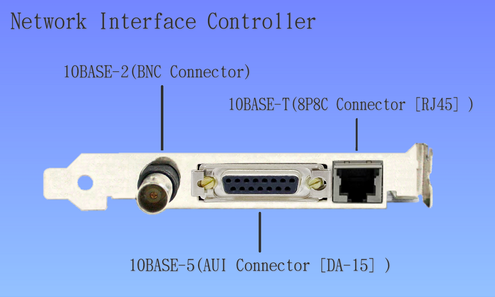 Network Interface Controller 1980s